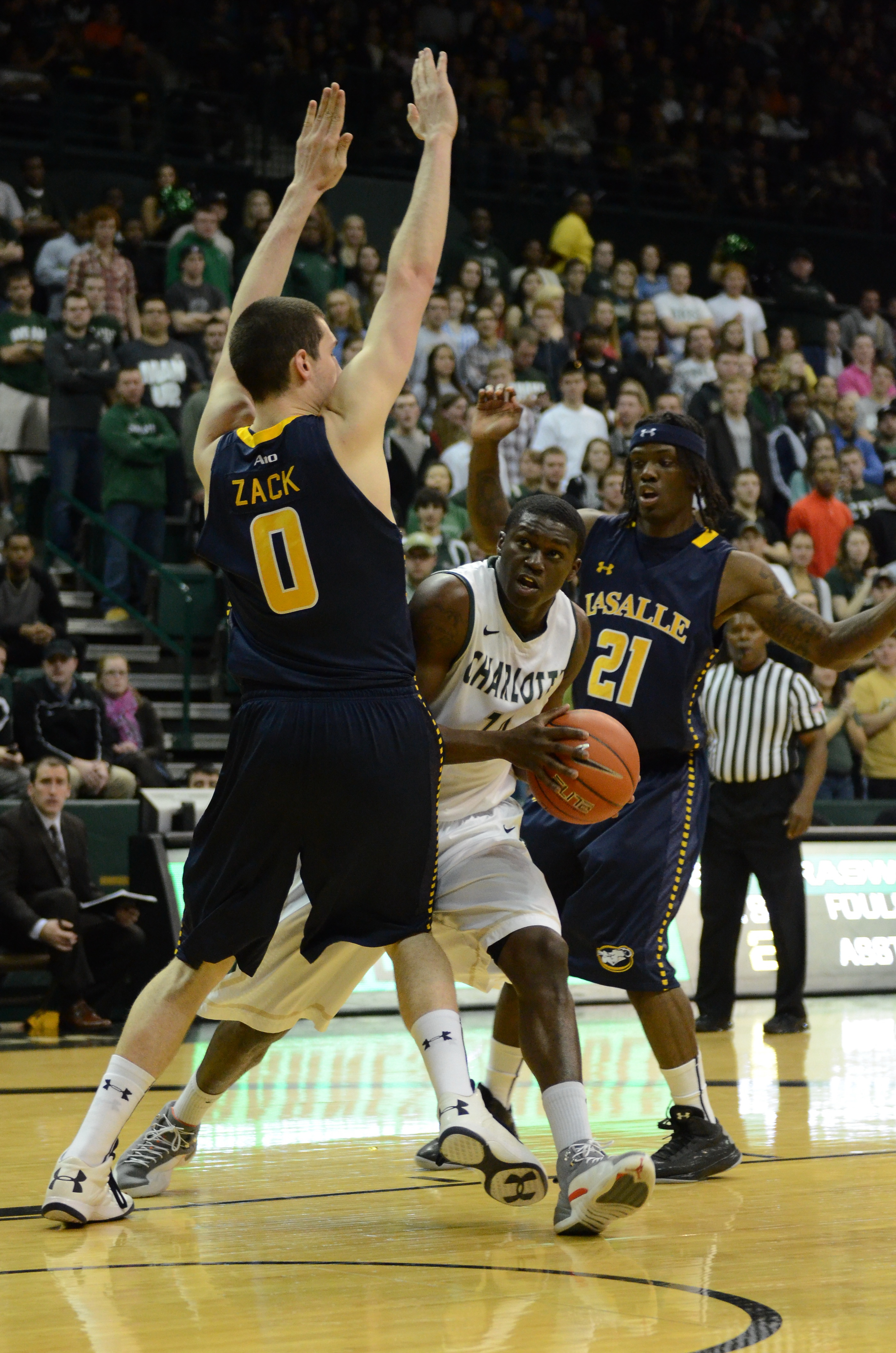 14 Terrence Williams, LS #0 Steve Zack, LS #21 Tyrone Garland